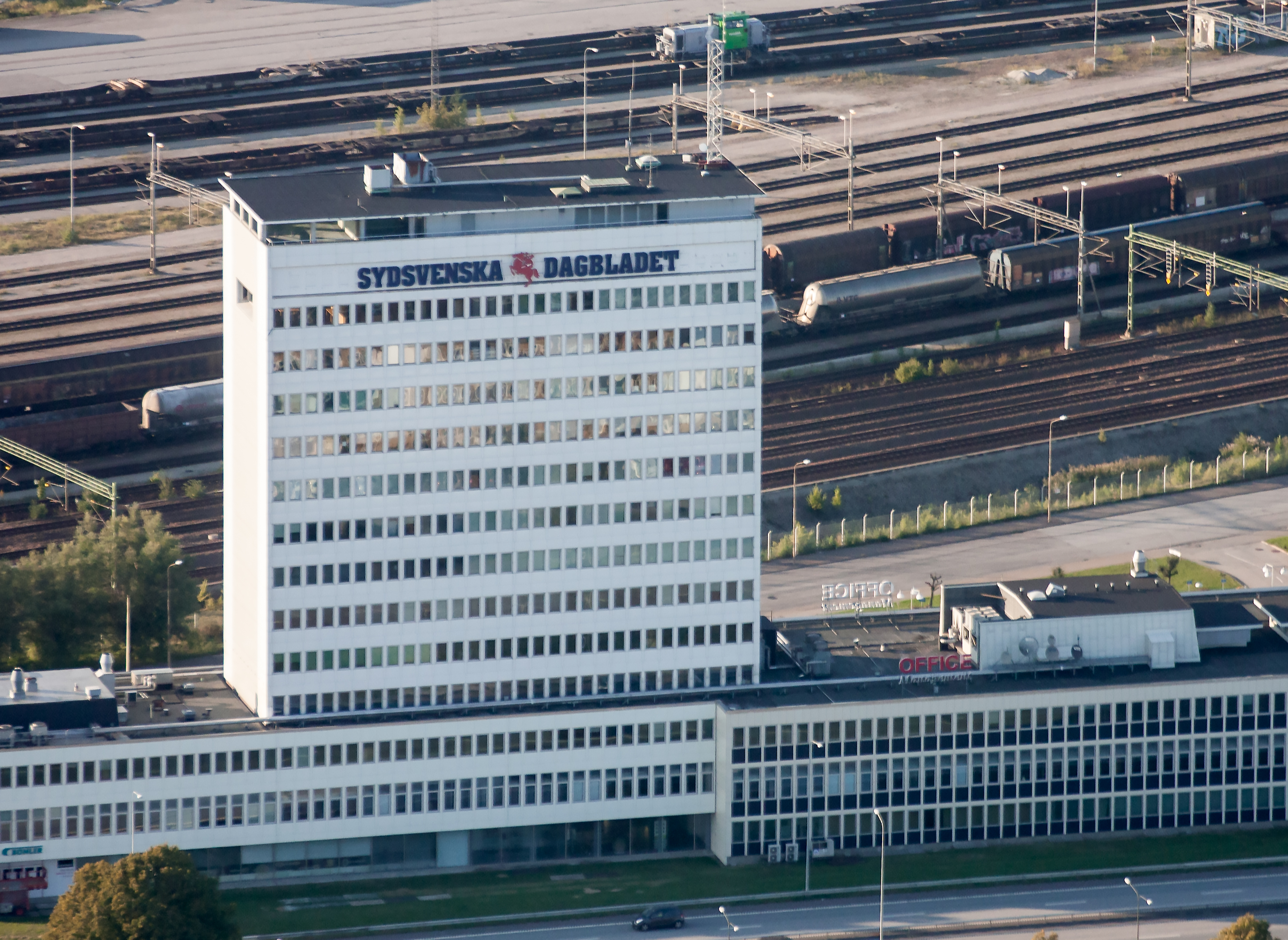 Sydsvenskan building in Malmö, Sweden